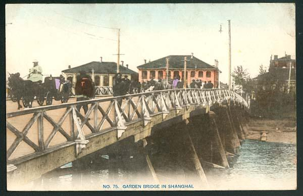 Image released before 1906